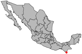 Locator map of Tapachula, Chiapas, Mexico